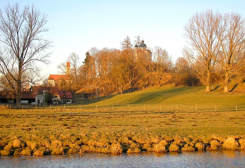 Motte-and-bailey castle Kissing (Landkreis Aichach-Friedberg, Swabia (Bavaria), Germany). The castle from the south west. View over the river Paar